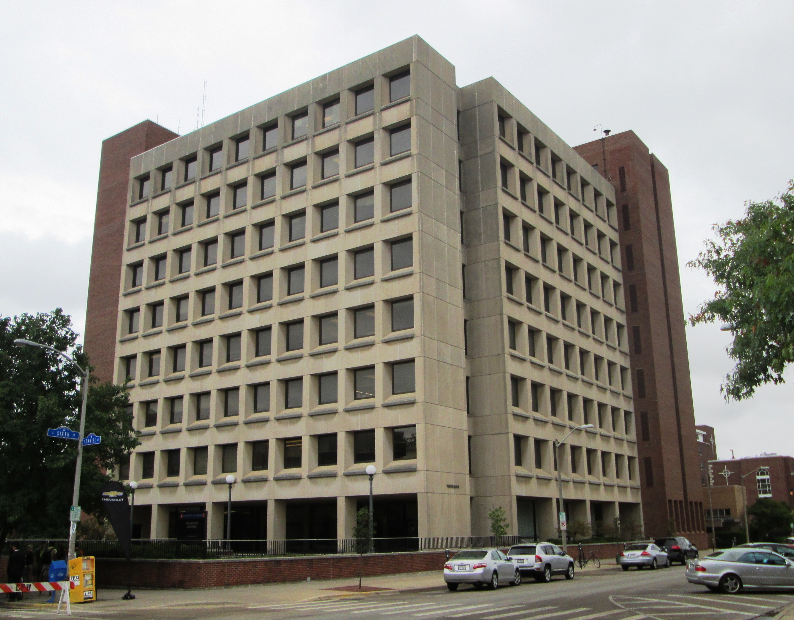 The Psychology Building at 603 E. Daniel Street in Champaign, Illinois, on the campus of the University of Illinois at Urbana-Champaign, was built in 1969 at the cost of $6.4 million and was designed by Hellmuth, Obata & Kassabaum. (Source: [1])